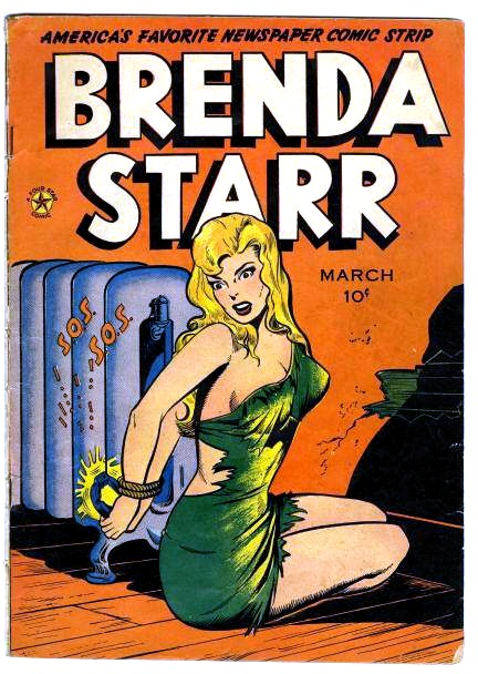 Cover scan of Brenda Starr #14, March 1947